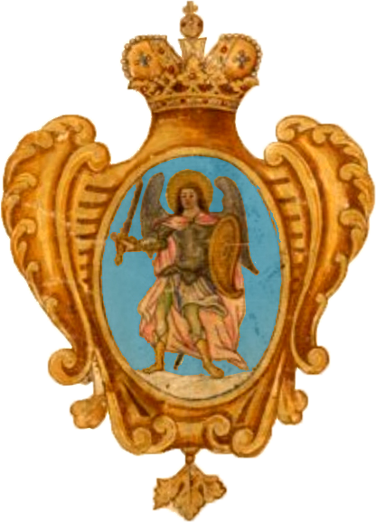 Kiev, coat of arms (1730)